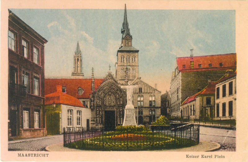 Postcard of 1925 of Keizer Karelplein in Maastricht, Netherlands. Photo collection: RHCL, Maastricht, ref. nr. 29525.